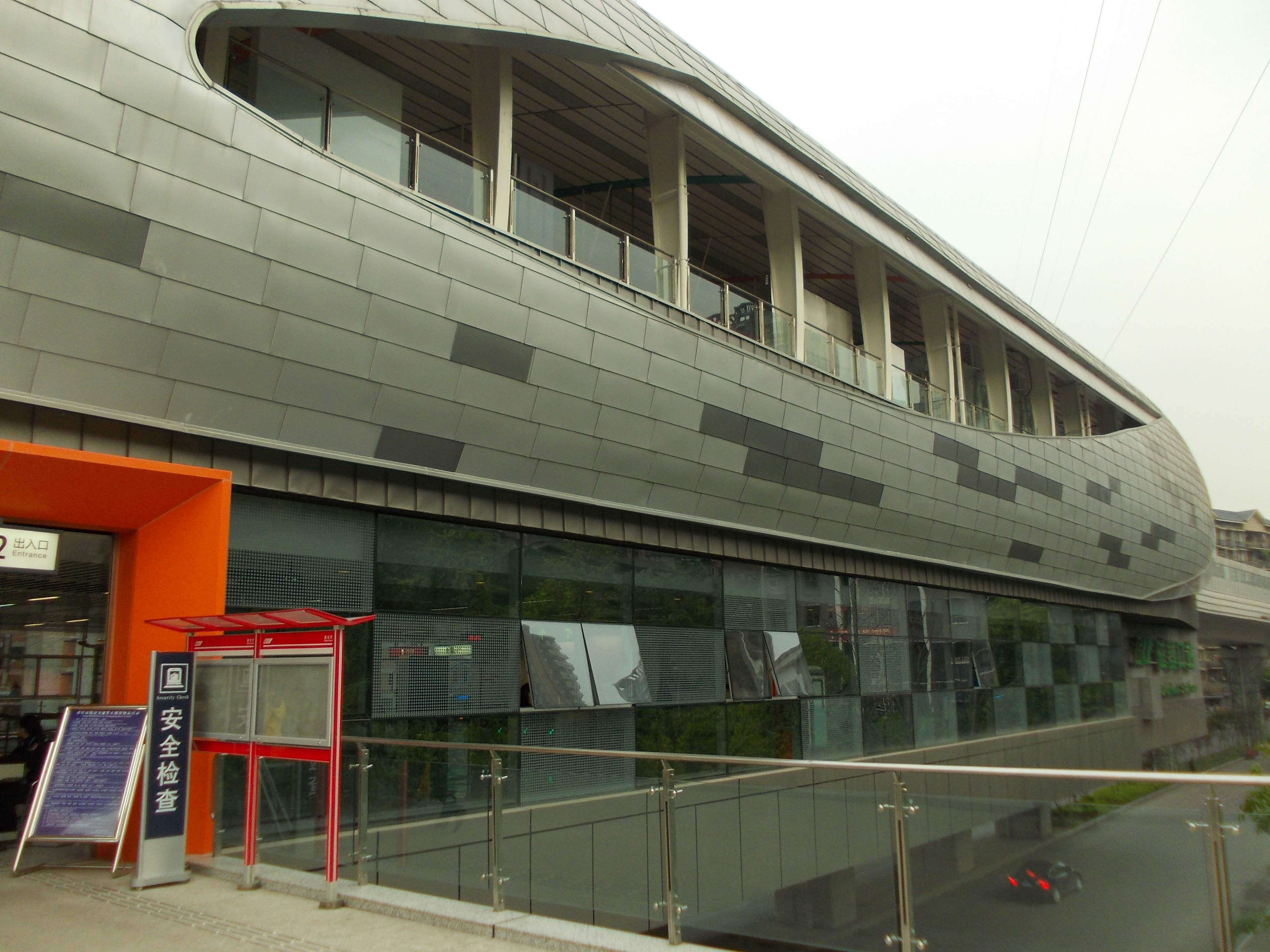 Chongqing Rail Transit - Ciqikou - Outside